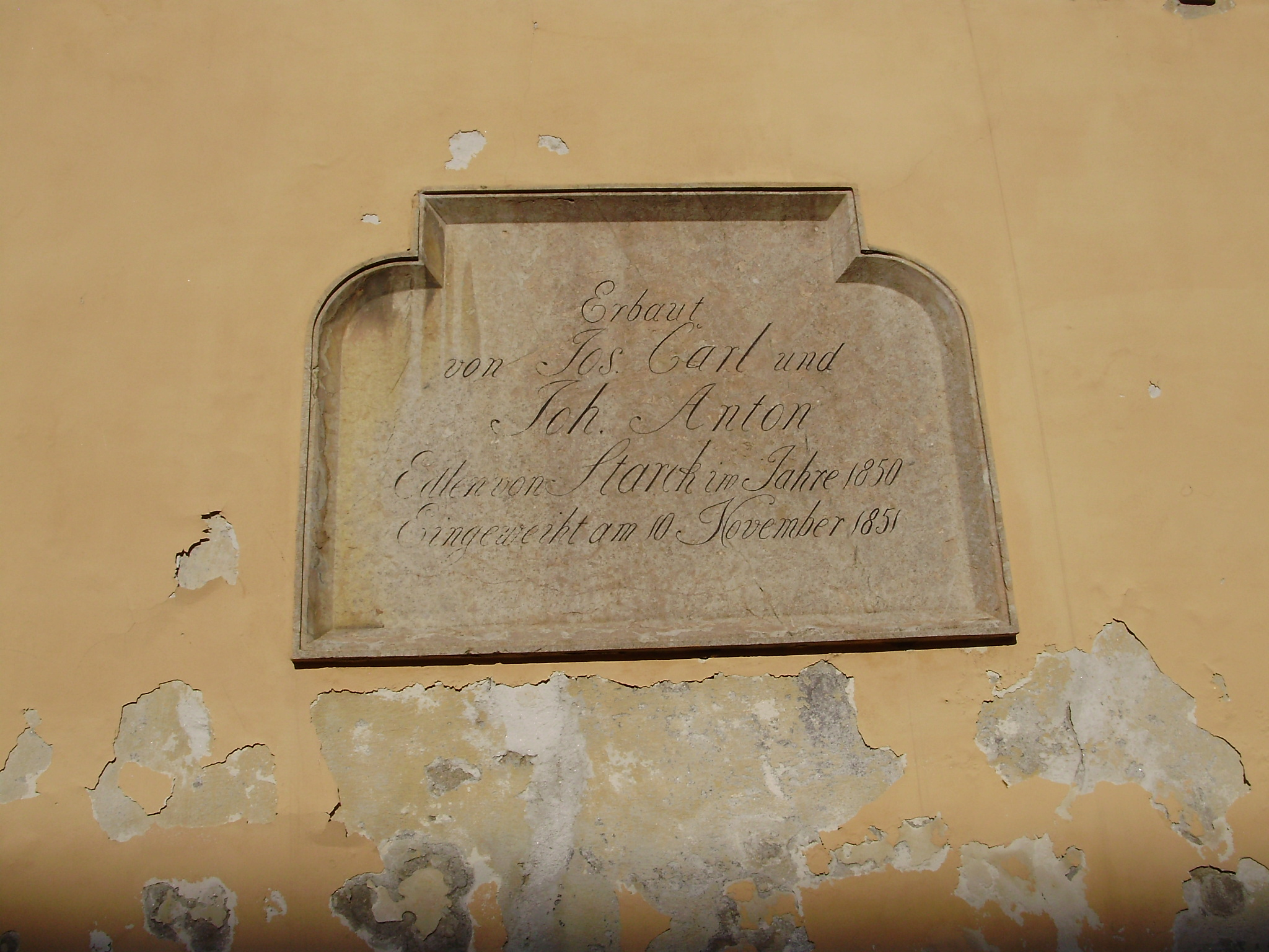 J.D. Starck Grave i n Alt Sattel ( Staré Sedlo)